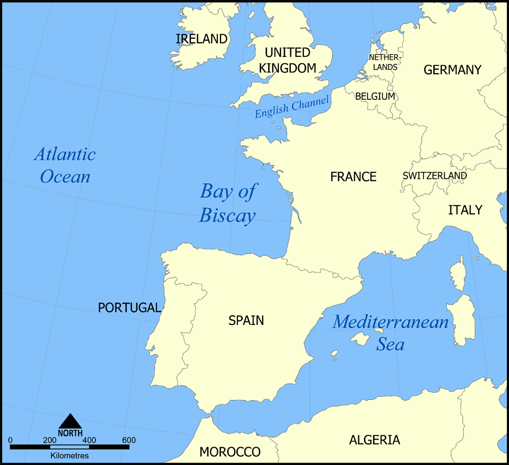 A map showing the location of the Bay of Biscay — in the North Atlantic Ocean bordering on France and Spain. Created by NormanEinstein, November 7, 2005